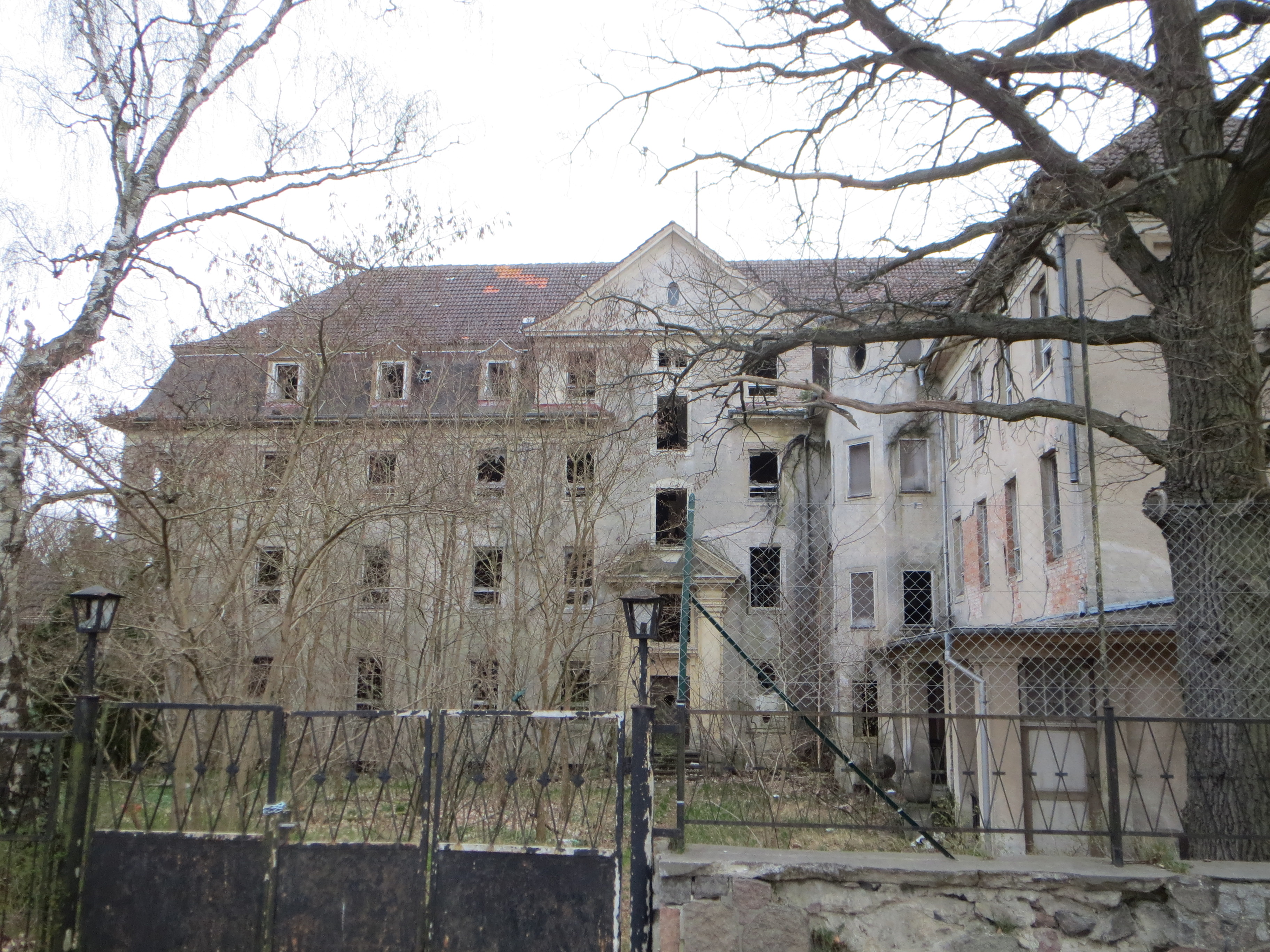 Zinnowitz Kindersanatorium Erich Steinfurth